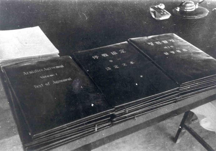 Texts of Korean Armistice Agreement